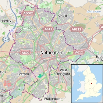 Map of Greater Nottingham Area